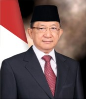 Hendarman Supandji as Chief of Indonesia's National Land Agency